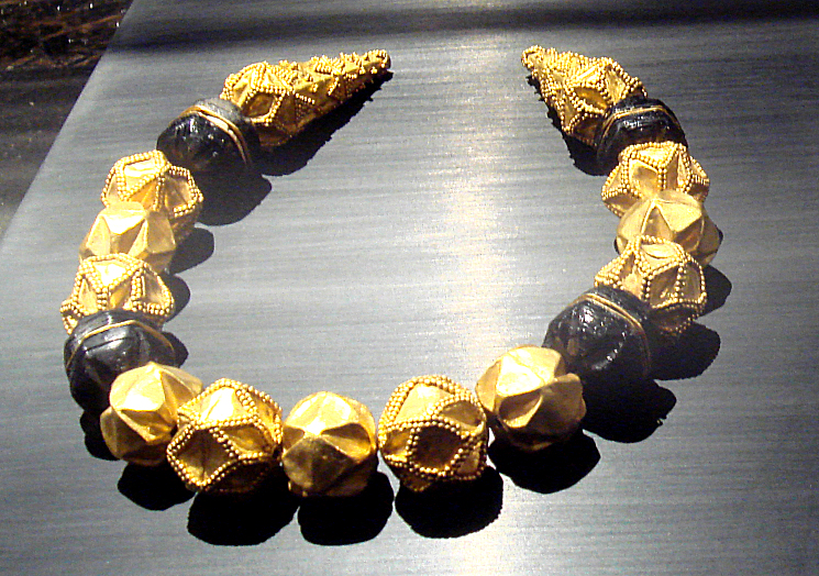 Necklace from Tillia tepe. Musee Guimet. Personal photograph 2006.